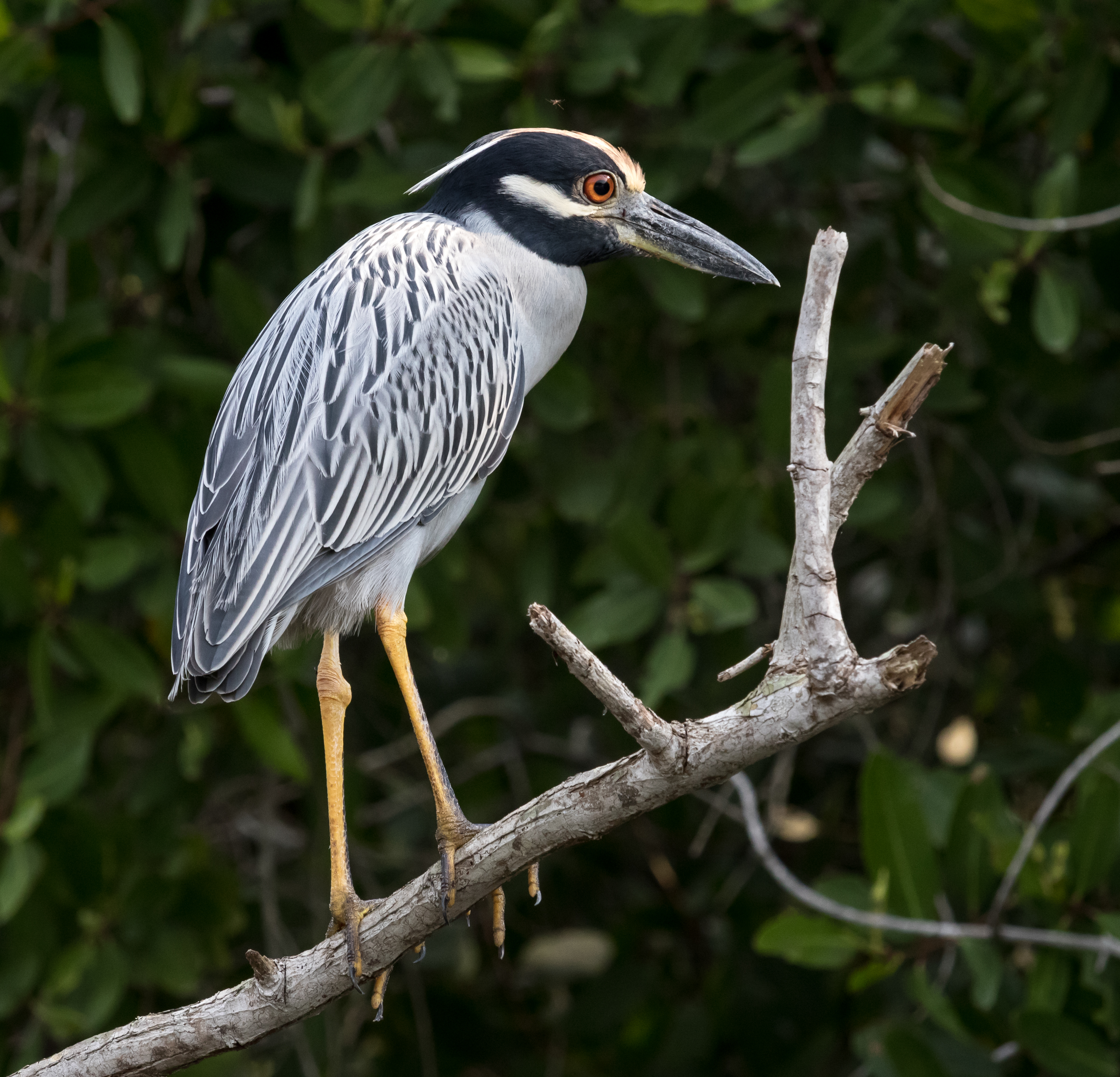 Yellow-crowned night heron (Nyctanassa violacea) in La Manzanilla, Jalisco, a great place for bird watchers!